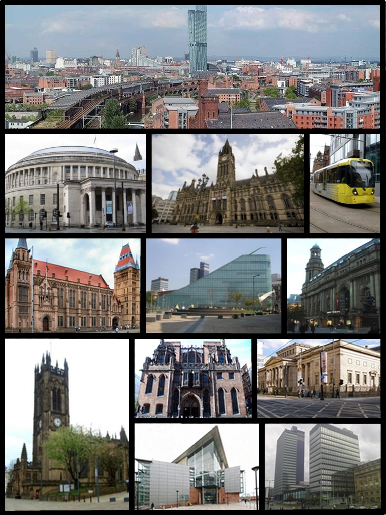 (Top to bottom, left to right) Manchester city centre Skyline from Southwest Manchester Central Library Manchester Town Hall Manchester Metrolink University of Manchester Urbis Royal Exchange Theatre (Manchester) Manchester Cathedral John Ryland's Library, Deansgate Manchester Art Gallery The Bridgewater Hall The Co-operative Group Headquarters (part)